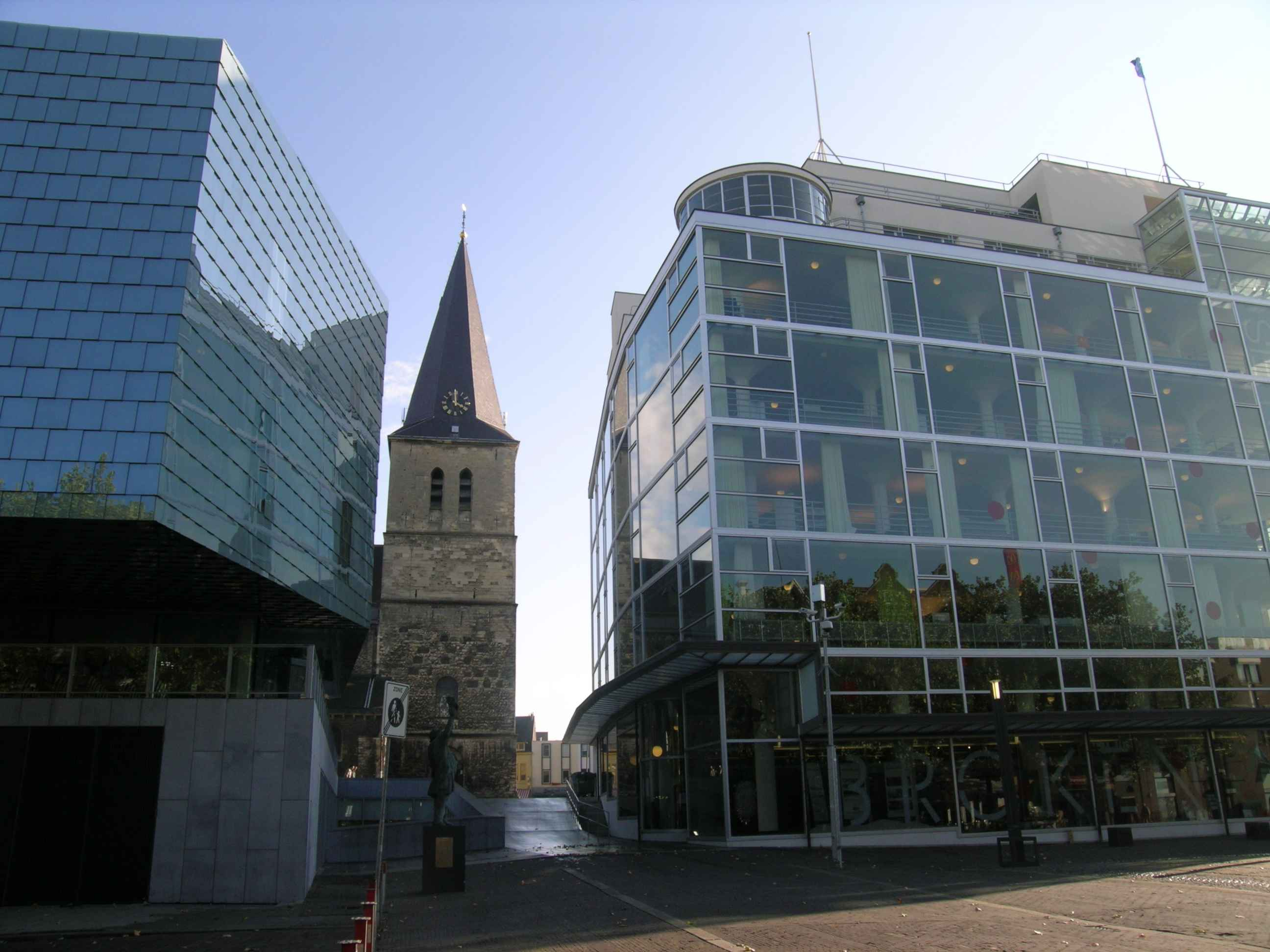 The Glaspaleis, Pancrtiuskerk and musicschool in Heerlen.